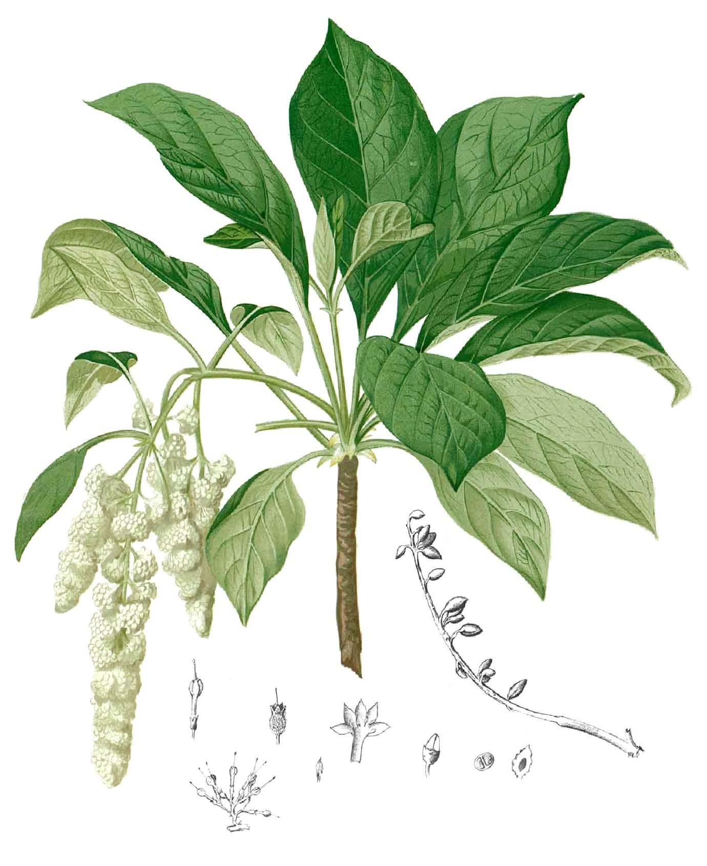 Plate from book